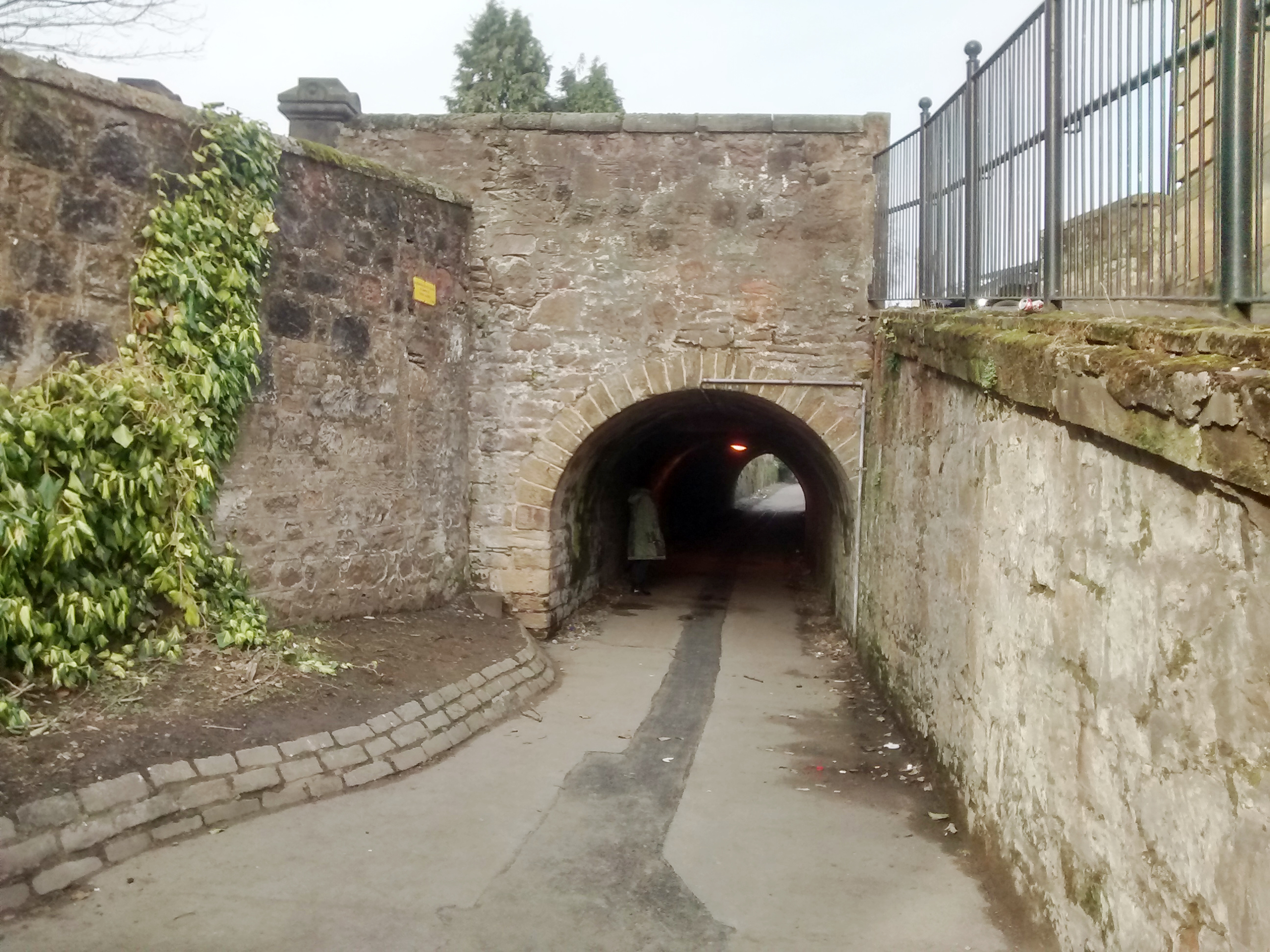 Alloa Waggonway. originally constructed in 1768 to transport coal (Canmore ID 47236), and tunnel